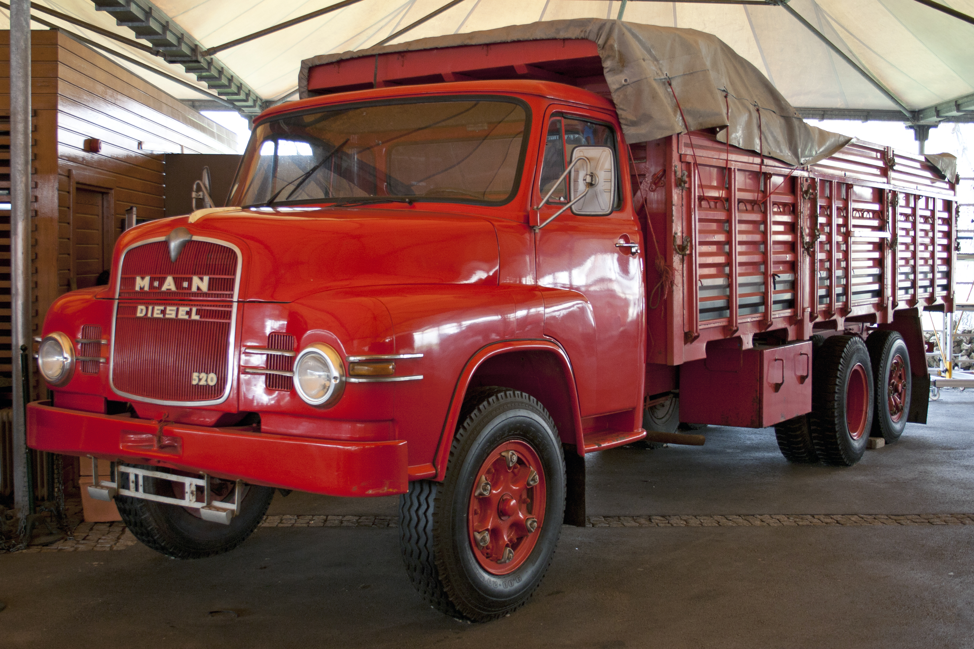 1969 MAN 520 HN on display in the Rahmi M. Koç Museum of Transportation. This Turkish-built Ponton-Kurzhauber was donated by MANAŞ.